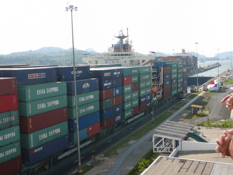 panama